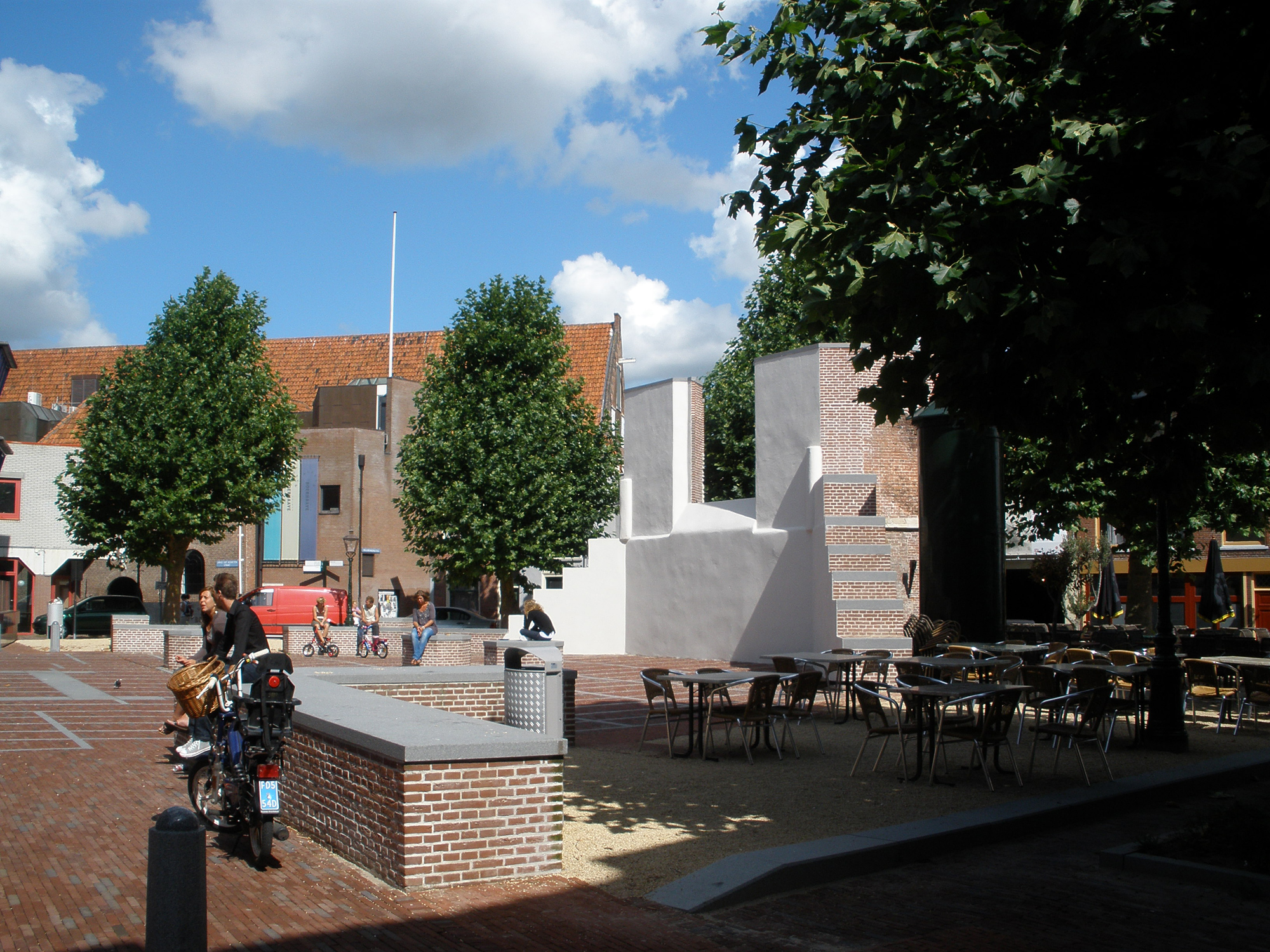 Vrouwenkerkhof square with the remains of the Vrouwekerk church in Leiden, the Netherlands. Part of Museum Boerhaave can be seen far left.